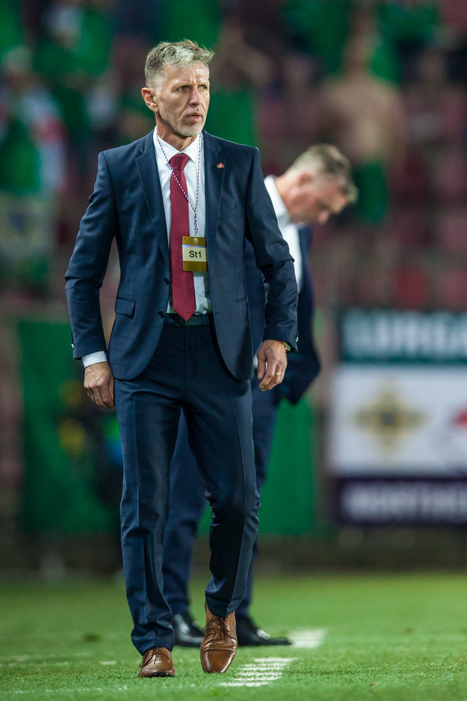 Jaroslav Šilhavý in an international friendly match between Czech Republic and Northern Ireland (2:3), Stadion Letná (Prague) 2019-10-14 The making of this work was supported by Wikimedia Austria. For other files made with the support of Wikimedia Austria, please see the category Supported by Wikimedia Österreich. Personality rights warningAlthough this work is freely licensed or in the public domain, the person(s) shown may have rights that legally restrict certain re-uses unless those depicted consent to such uses. In these cases, a model release or other evidence of consent could protect you from infringement claims.